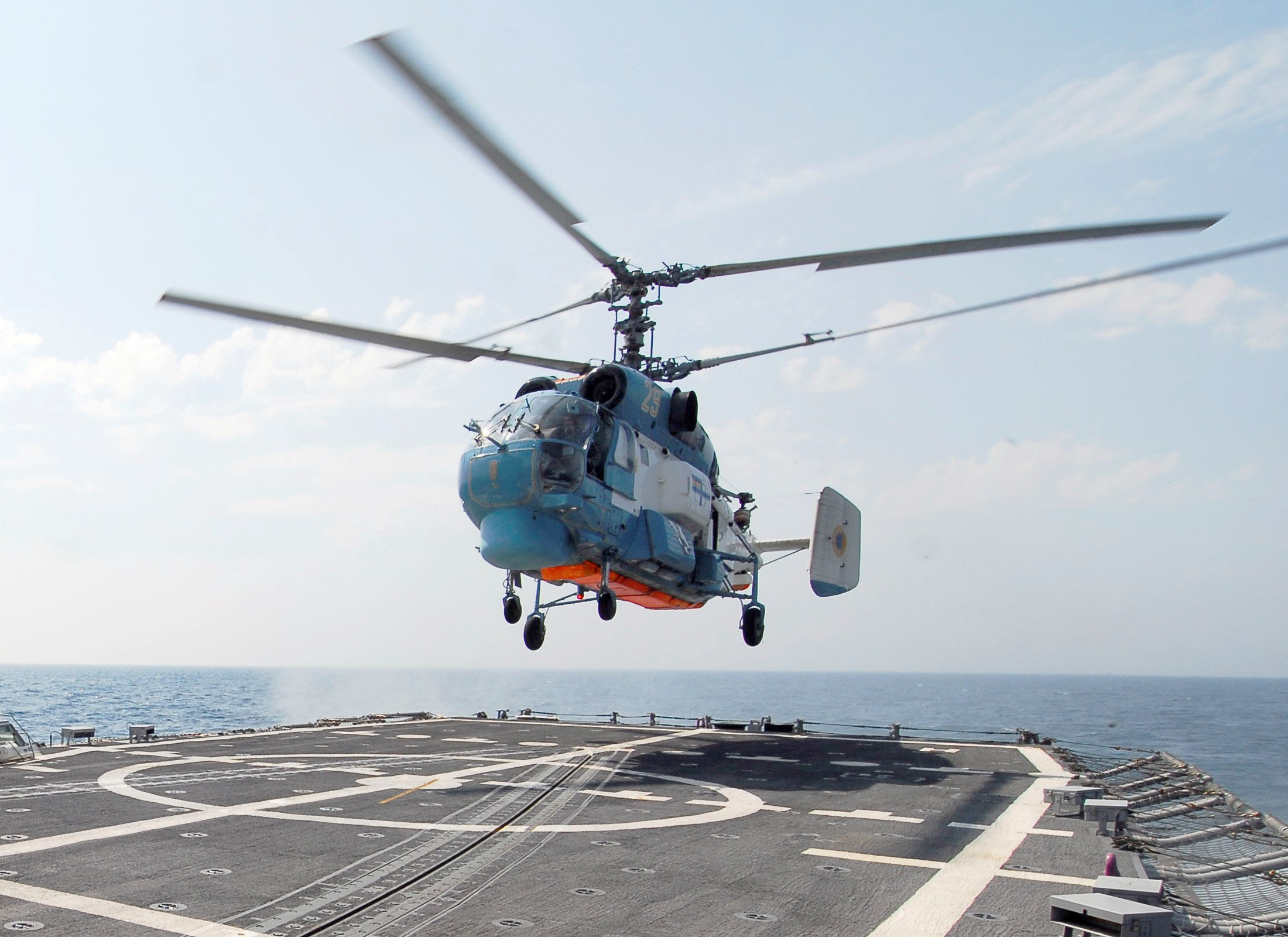 100720-N-7638K-222 BLACK SEA (July 20, 2010) A Ukrainian navy KA-27 Helix helicopter from Saki Naval Air Base in Ukraine, conducts deck land qualifications with the guided-missile frigate USS Taylor (FFG 50) during exercise Sea Breeze 2010. Sea Breeze is an annual multinational exercise designed to strengthen maritime partnerships in the Black Sea region in the spirit of partnership for peace.